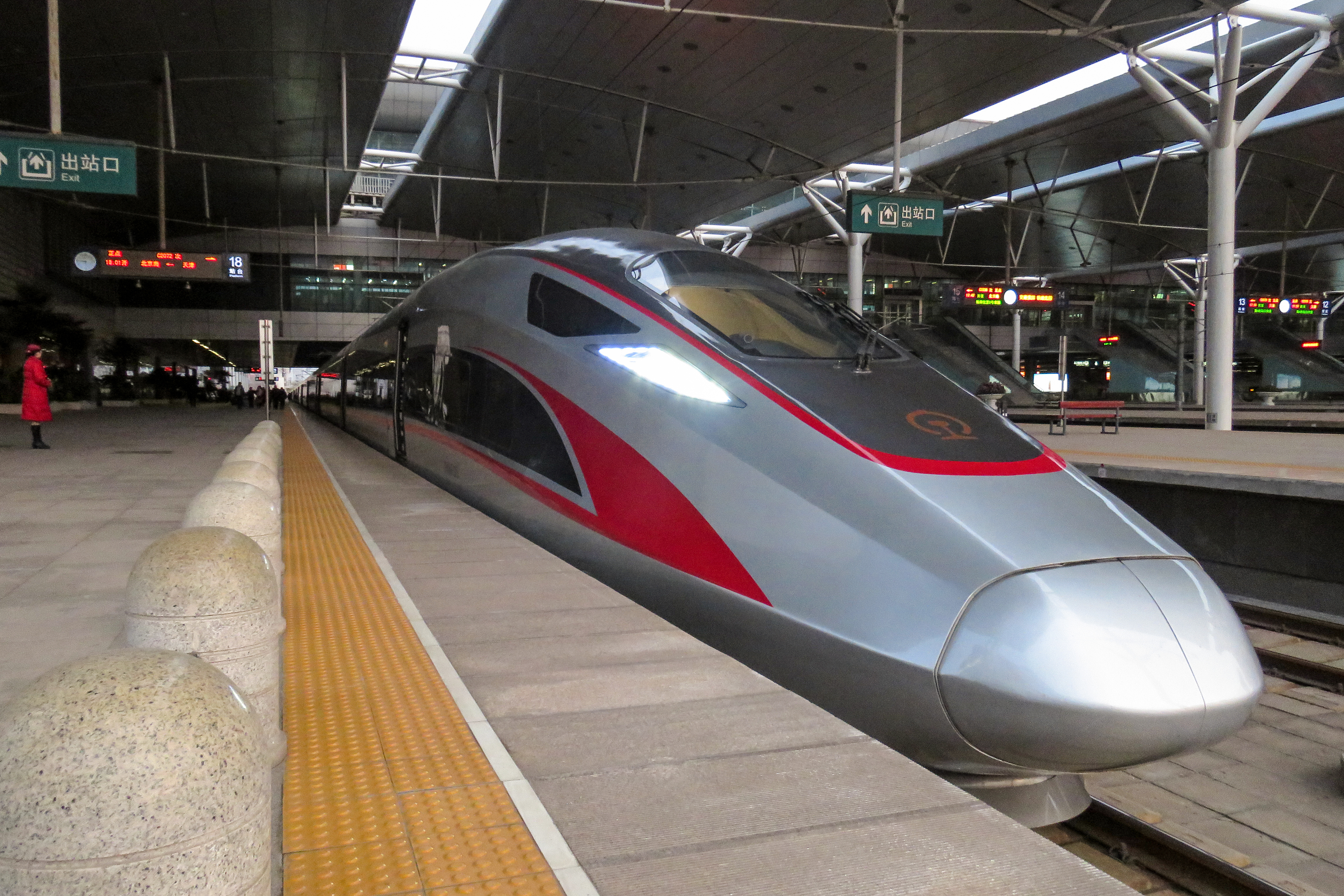 C2072 to Beijing South. The popularity of CR400 series is still lively even one whole year after the long-haul inauguration.